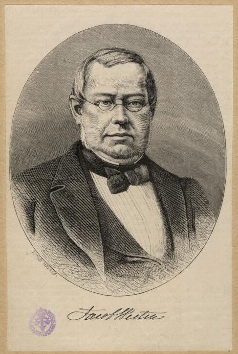 Portrait of Jacob Westin